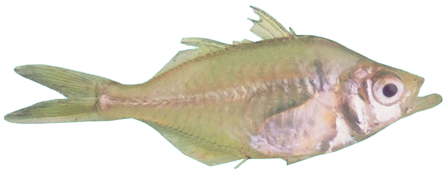 A fresh water fish species from Kathani river of Wainganga basin from the Gadchiroli district of Maharashtra state India.